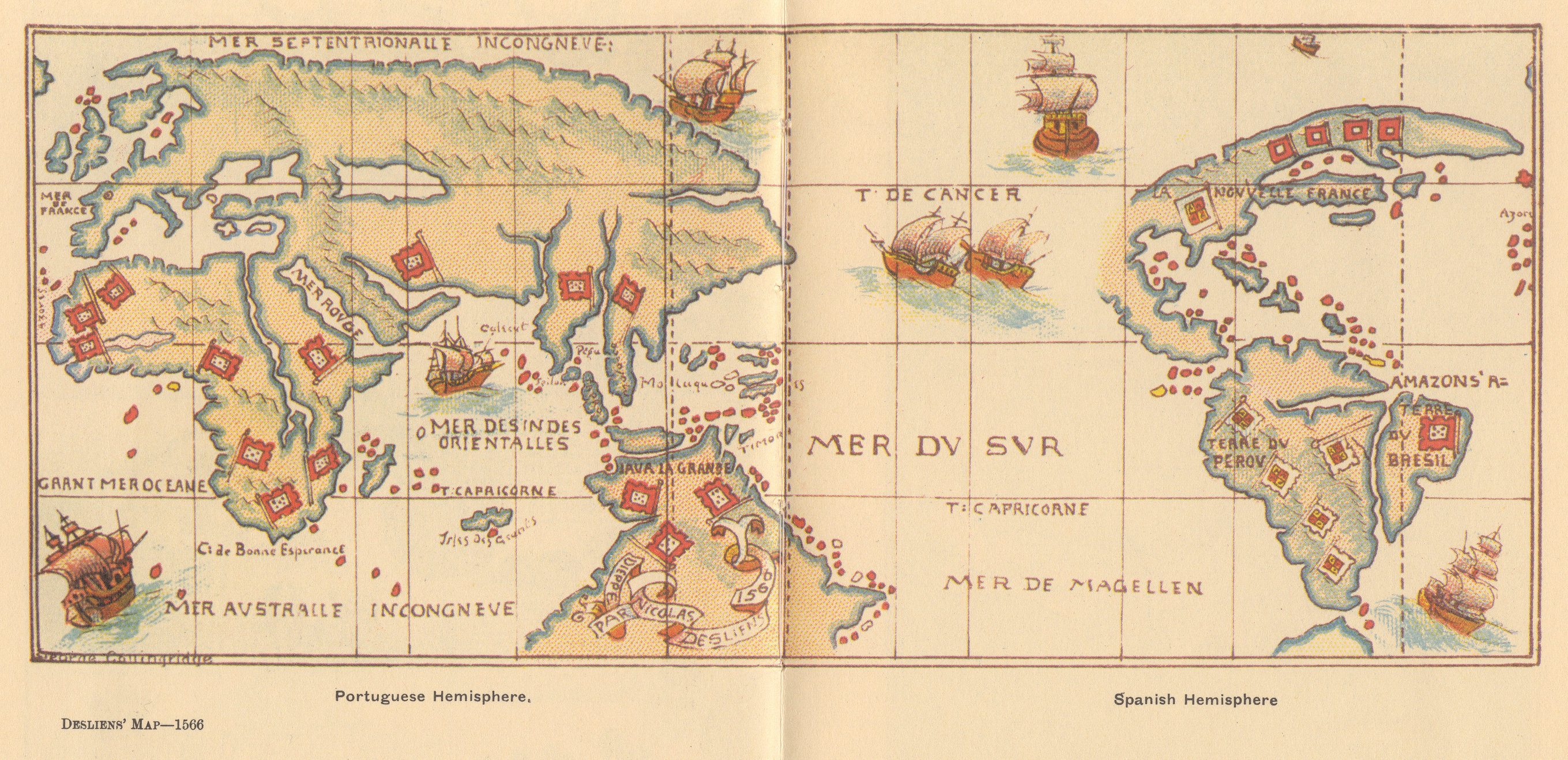 World map of Nicolas Desliens.